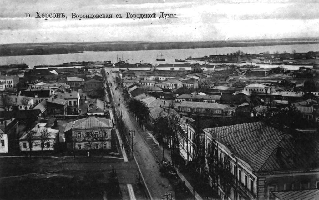 Vorontsov Street in Herson. Pre-1917 postcard Flickr data on 2011-08-14 Tags: Vorontsov, Street, Herson, postcard License: CC BY-SA 2.0 User: paukrus Ruslan